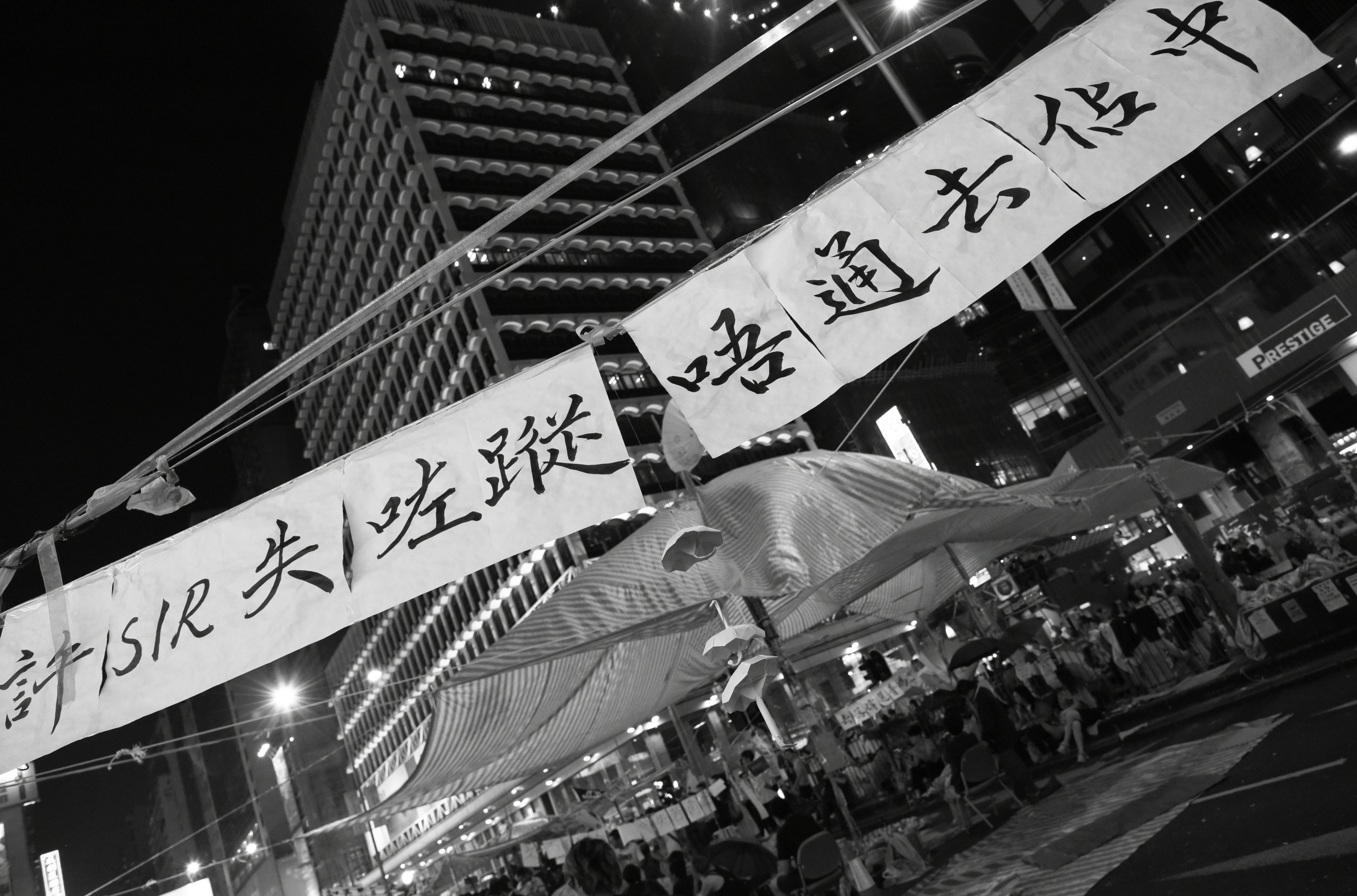 Umbrella Revolution